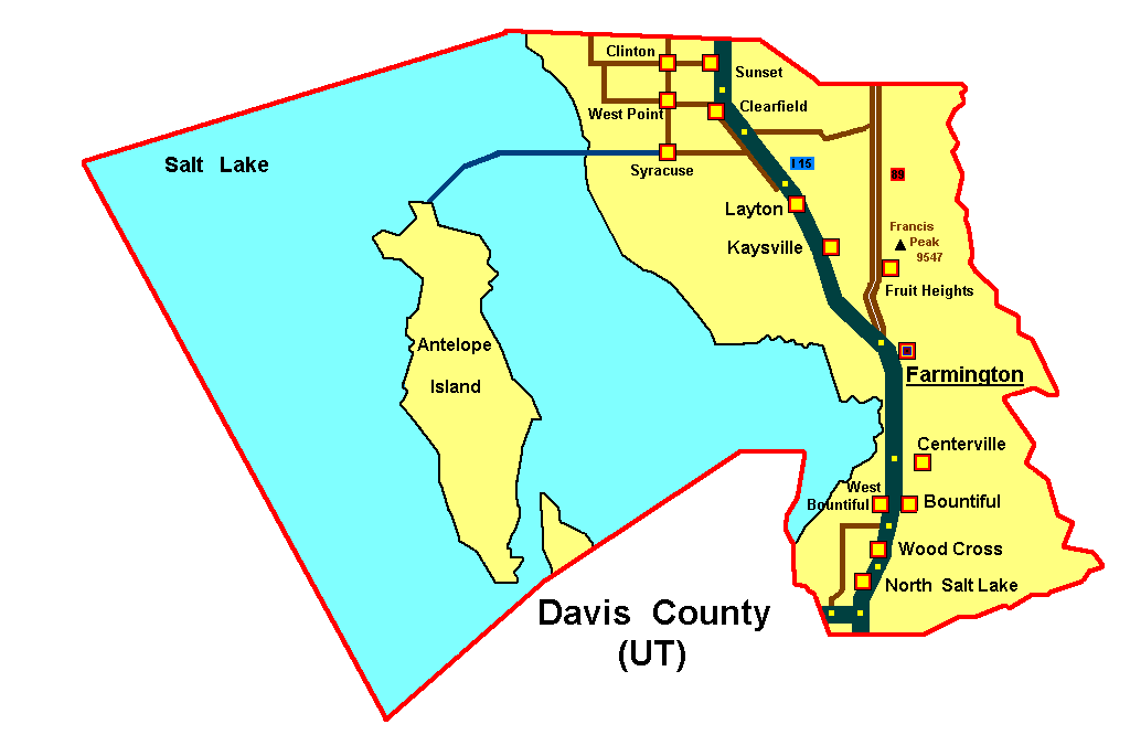 Davis County (UT) details, selfmade graphic by R.Blauert Dk4hb